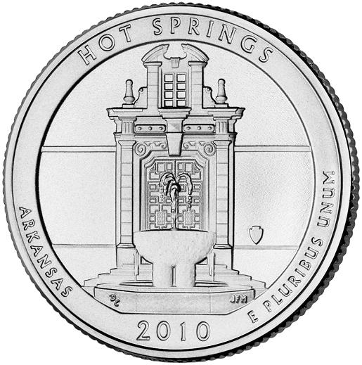 Reverse of 2010 "America the Beautiful" United States quarter dollar coin, depicting Hot Springs National Park